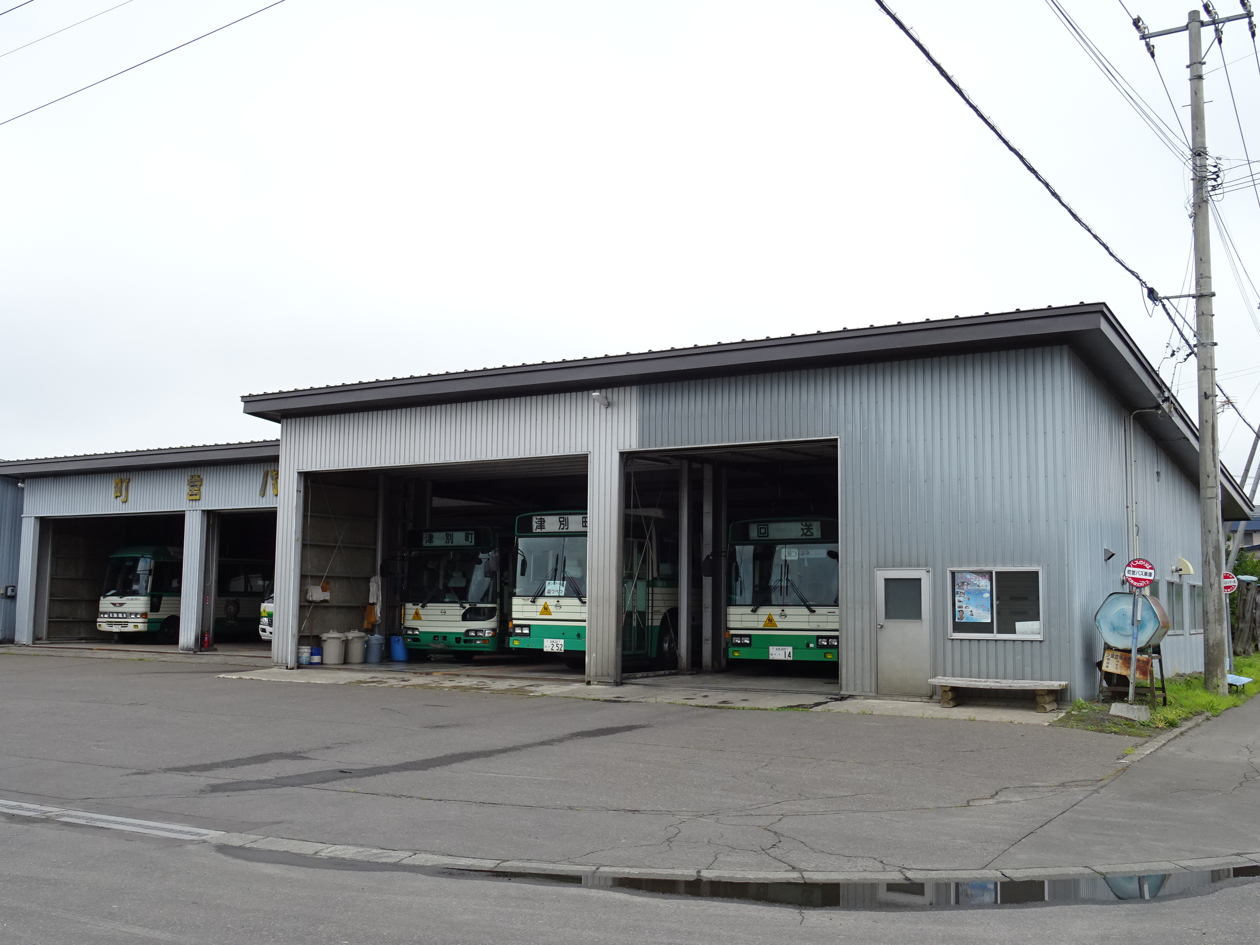 Tsubetsu bus center